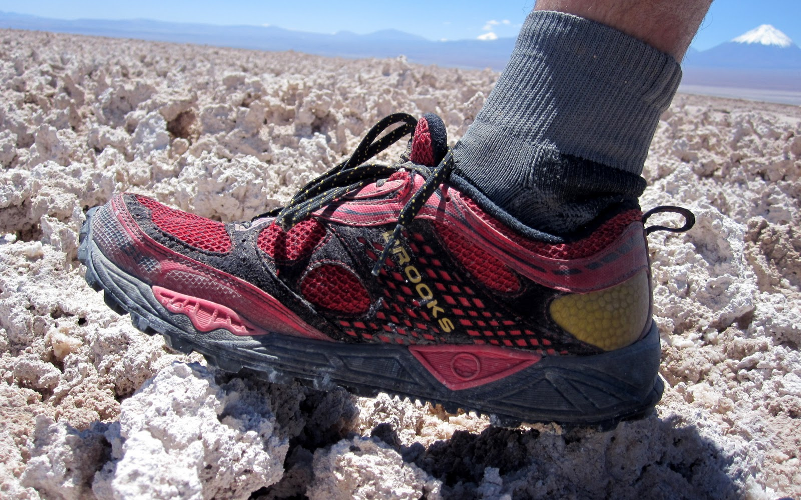 Brutal salt flats of the Atacama Crossing.